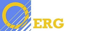 aterb erag eb